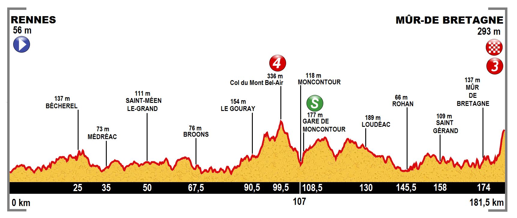 Profile of the 8th stage of the Tour de France 2015